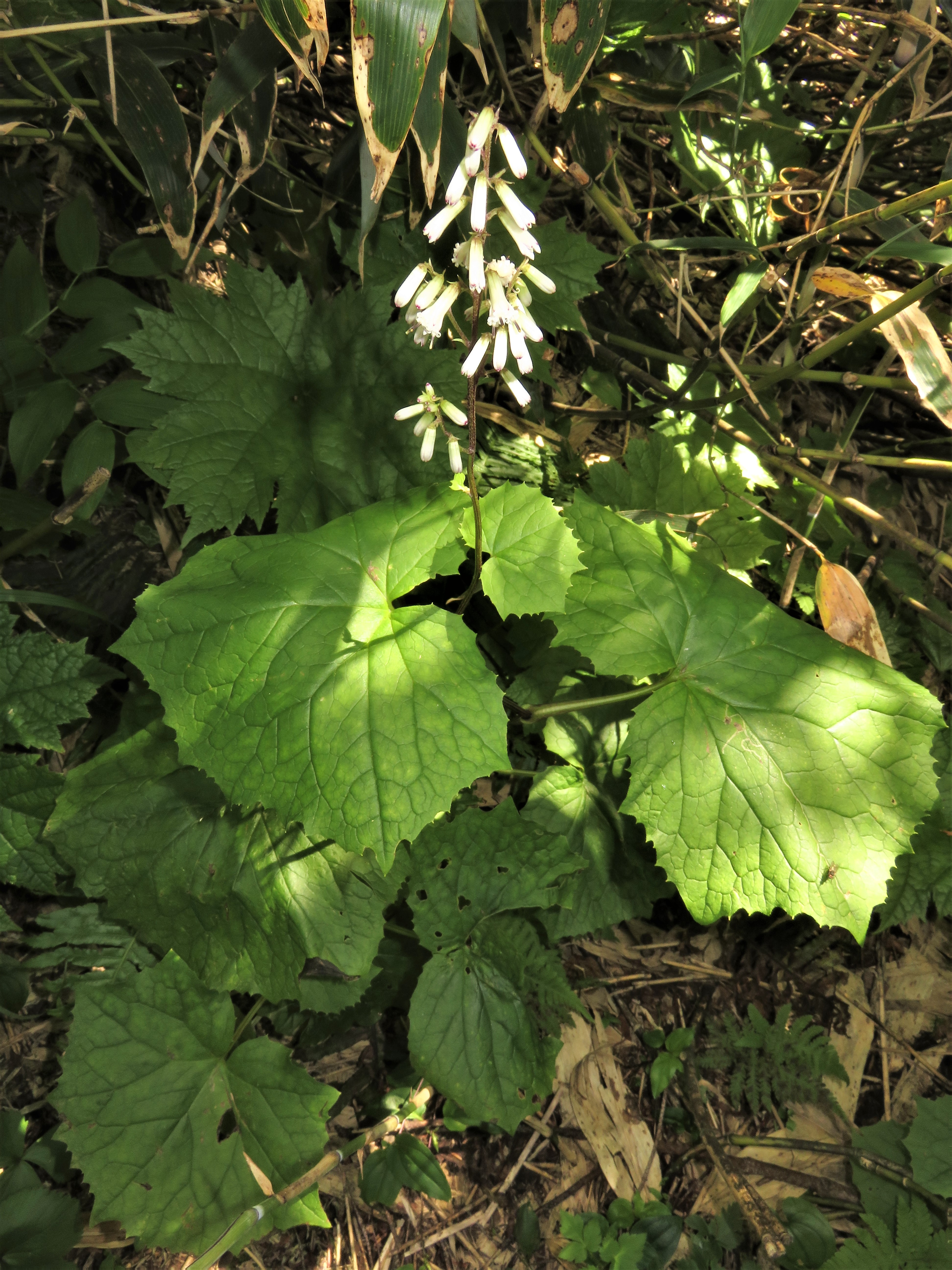 Parasenecio kamtschaticus, Hakkoda Mountains, Aomori pref. ,Japan